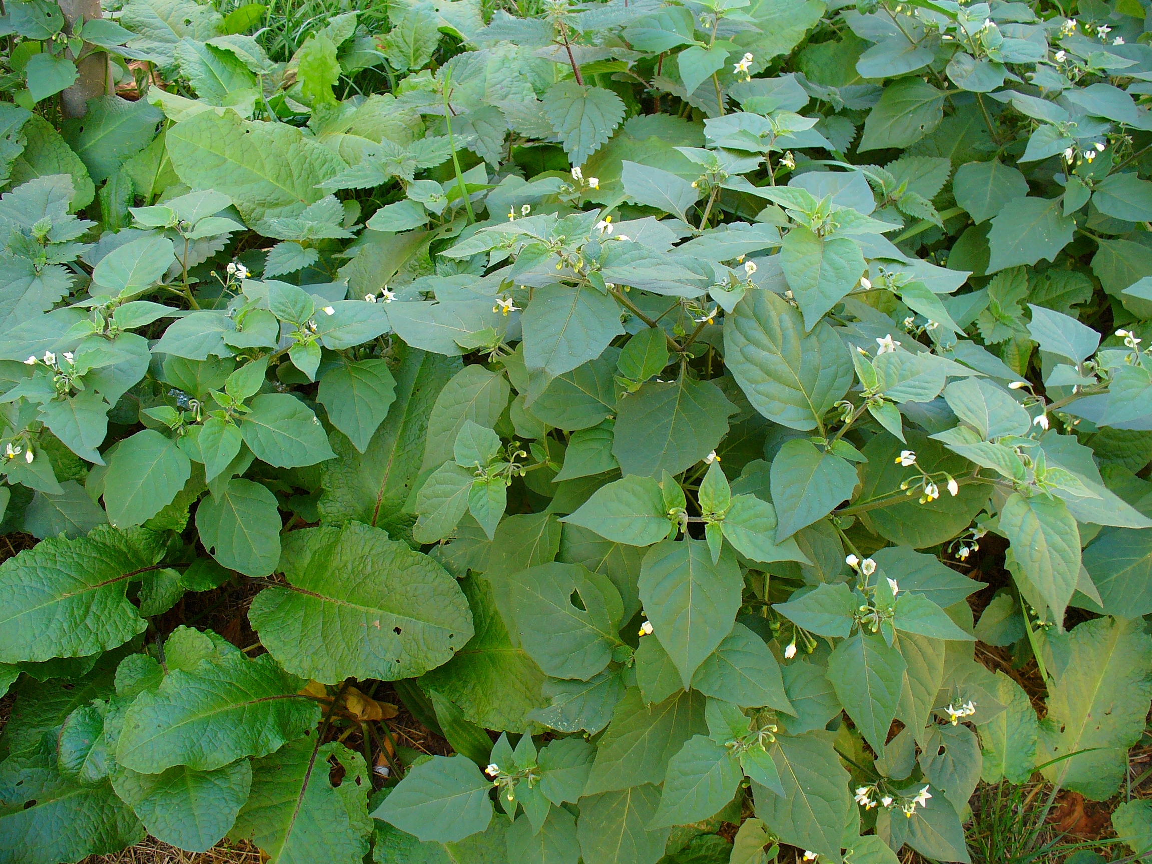 Solanum nigrum, Solanaceae, European Black Nightshade, Duscle, Garden Nightshade, Hound's Berry, Petty Morel, Wonder Berry, Small-fruited Black Nightshade, Popolo, habitus. Karlsruhe, Germany.